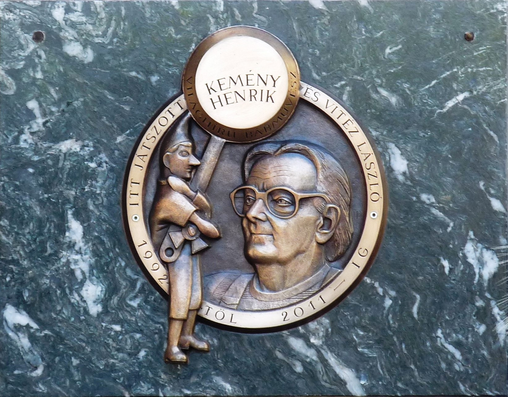 Commemorative plaque to Mr. Henrik Kemény (1925–2011) Hungarian puppeteer, affixed on the wall of the Theater ’Kolibri’ where he worked between 1992 and 2011. The author of the bronz relief is Mr. József Patkó. It was unveiled on September 8, 2012. (Budapest, District VI, Jókai Square Nr 10).